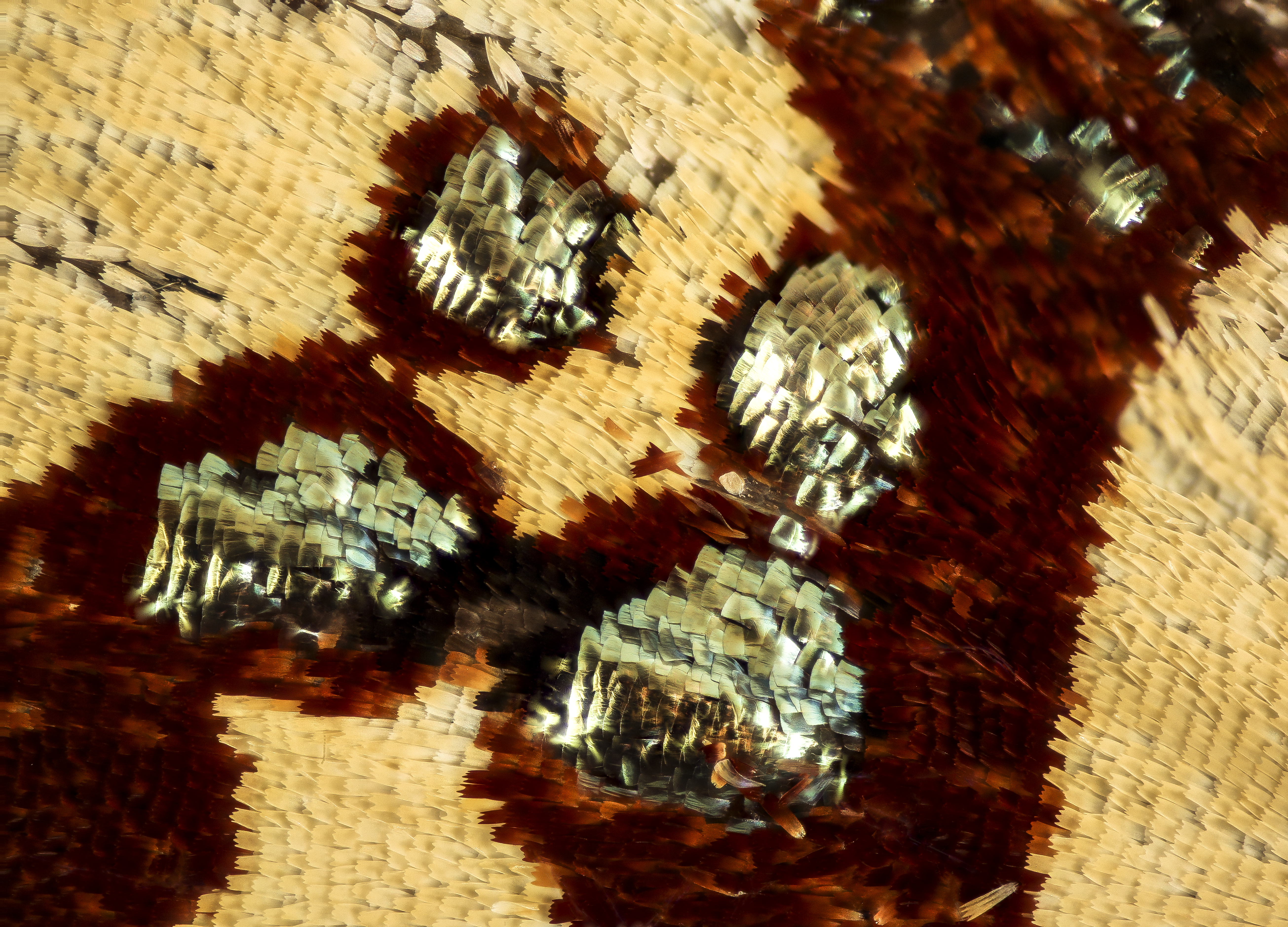 Bling Butterfly - Anteros fomosus - a.k.a.Black-bellied Anteros, or Formosus Jewelmark, collected in Peru. This is the underside and I show a variety of shots at different magnifications to highlight the lovely metalmarks some of the mirror-like scales create. Specimen from the Natural History Museum in Washington D.,C. 02:39, 29 February 2016 (UTC)02:39, 29 February 2016 (UTC) 0 02:39, 29 February 2016 (UTC)02:39, 29 February 2016 (UTC) All photographs are public domain, feel free to download and use as you wish. Photography Information: Canon Mark II 5D, Zerene Stacker, Stackshot Sled, 65mm Canon MP-E 1-5X macro lens, Twin Macro Flash in Styrofoam Cooler, F5.0, ISO 100, Shutter Speed 200 Beauty is truth, truth beauty - that is all Ye know on earth and all ye need to know " Ode on a Grecian Urn" John Keats You can also follow us on Instagram account USGSBIML Want some Useful Links to the Techniques We Use? Well now here you go Citizen: Art Photo Book: Bees: An Up-Close Look at Pollinators Around the World Basic USGSBIML set up: USGSBIML Photoshopping Technique: Note that we now have added using the burn tool at 50% opacity set to shadows to clean up the halos that bleed into the black background from "hot" color sections of the picture. PDF of Basic USGSBIML Photography Set Up: ftp://ftpext.usgs.gov/pub/er/md/laurel/Droege/How%20to%20Take%20MacroPhotographs%20of%20Insects%20BIML%20Lab2.pdf Google Hangout Demonstration of Techniques: or Excellent Technical Form on Stacking: Contact information: Sam Droege 301 497 5840